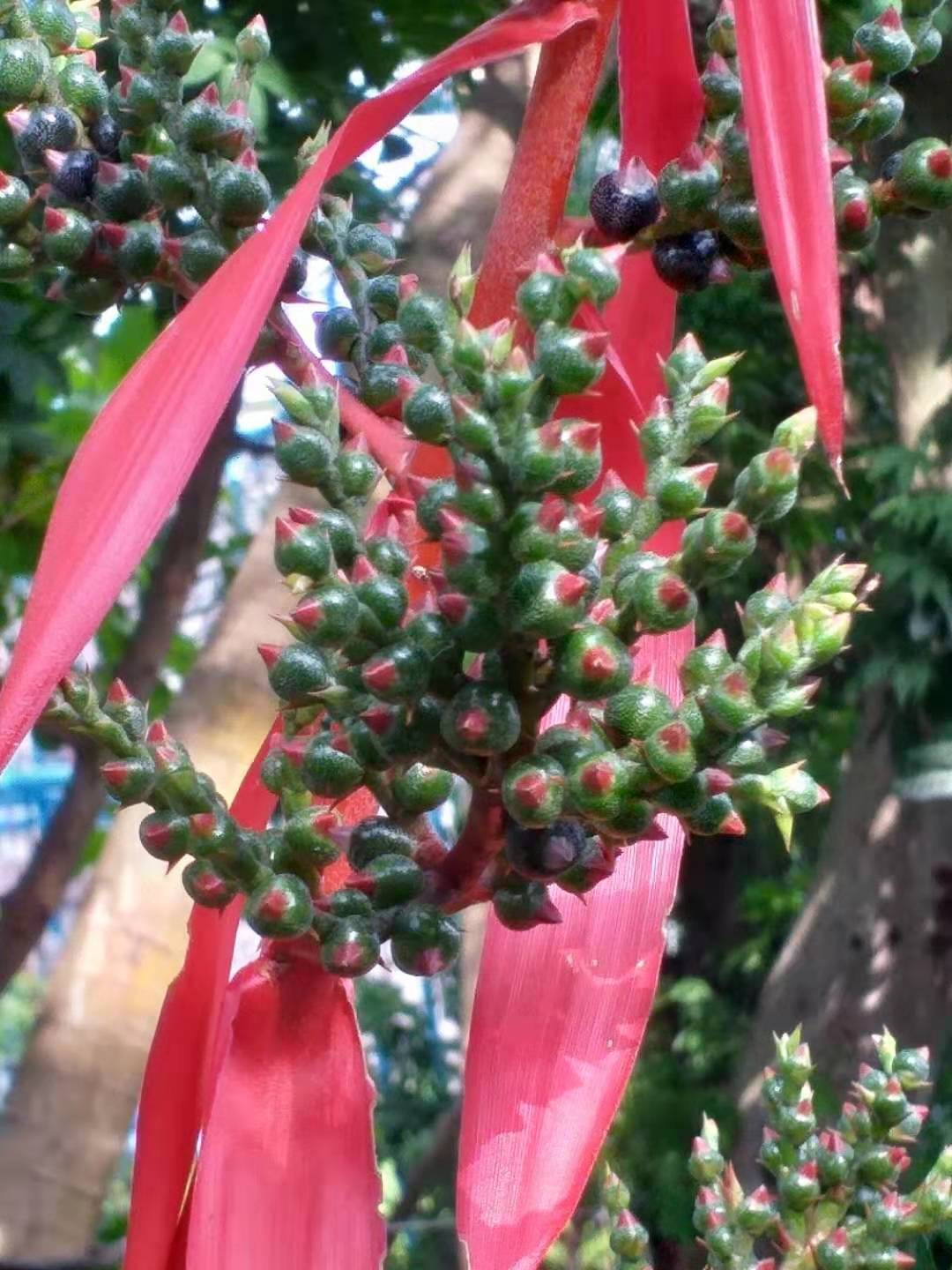 Red bract and inflorescence. Botanical Garden of National Museum of Natural Science, Taichung, Taiwan.